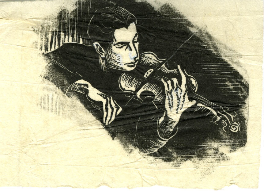 Woodcut portrait of the violinist Roman Totenberg, by Ilka Kolsky (1909–1938), Paris, probably early or mid 1930s